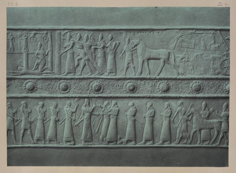 Capture of Astamaku on Balawat gates - found near Al-Mastumah. Ref. The bronze ornaments of the palace gates of Balawat (Shalmaneser II, B.C. 859-825) edited, with an introduction by Samuel Birch ; with descriptions and translations by Theophilus G. Pinches.